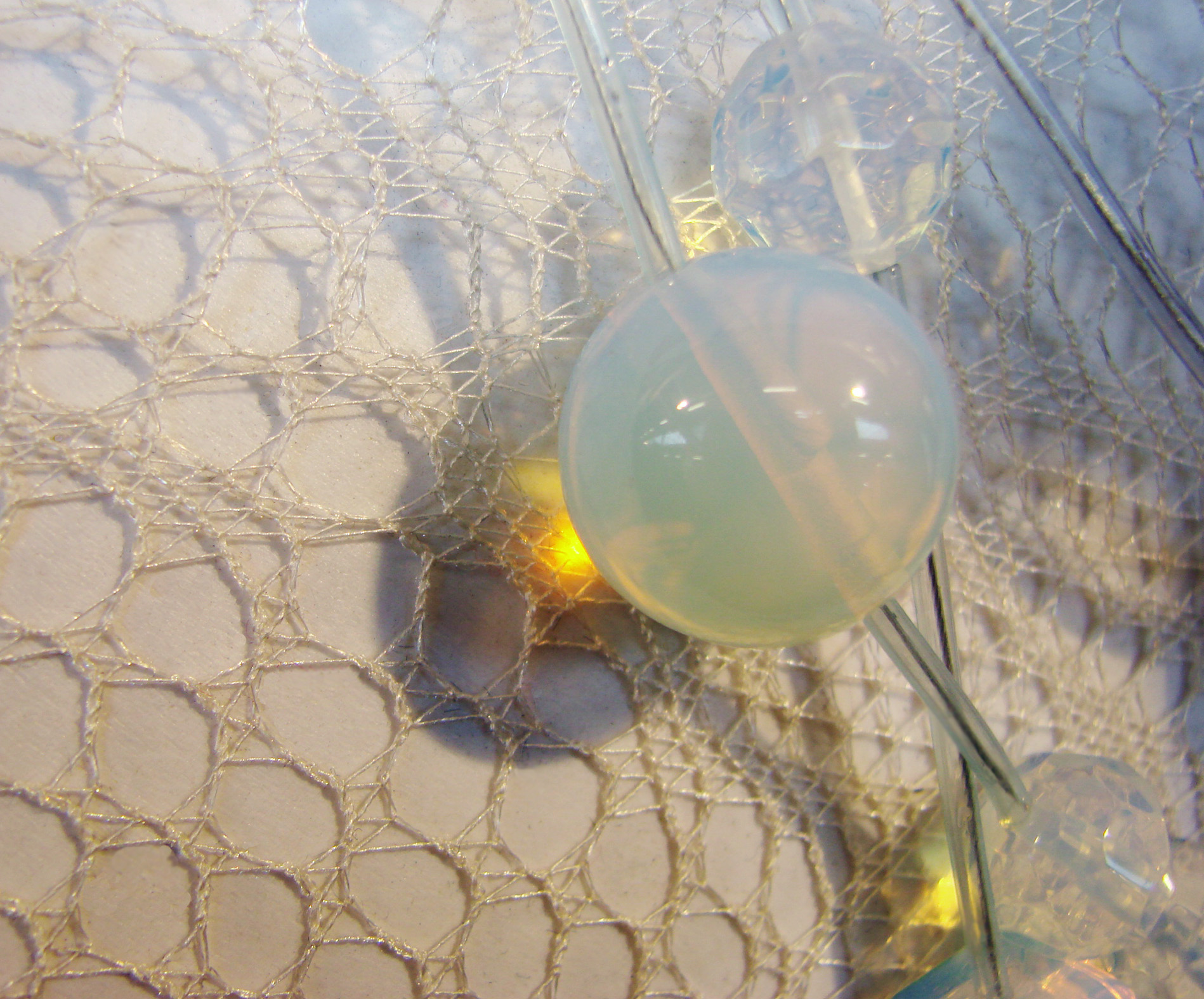 bead, opalescent glass.